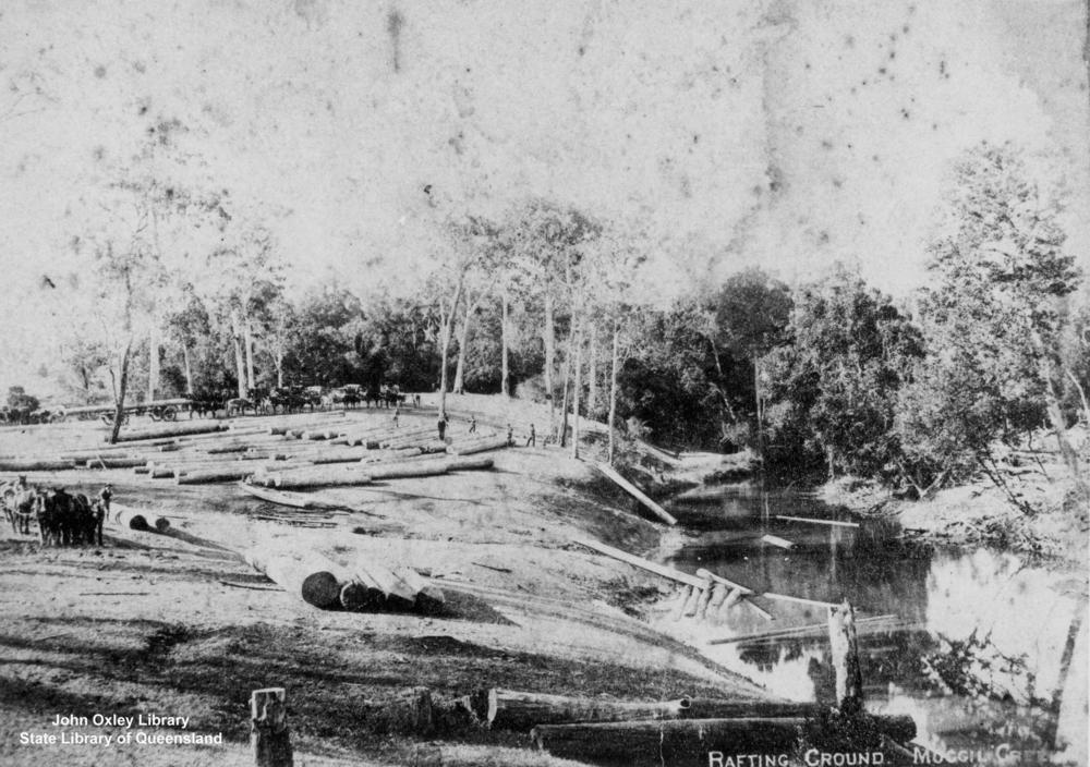 Tree-fellers cutting timber and preparing logs for rafting at Moggill Creek, Brisbane, against backdrop of uncleared bush. Visible in the cleared area are stripped logs, lumberjacks and horse-teams. Some logs float in the creek.